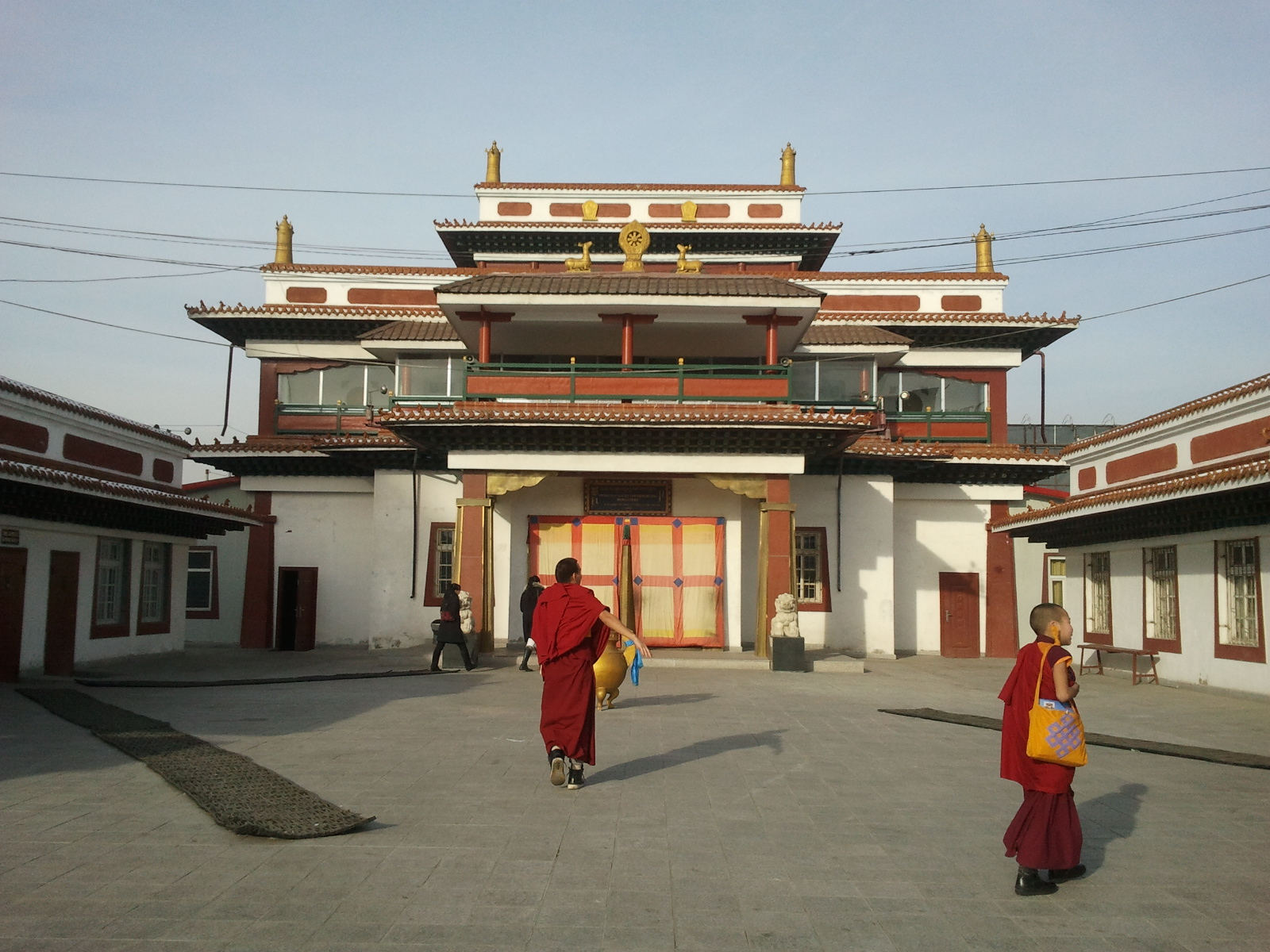 Main temple of Betub Monastery in Ulan Bator. Built in 1999.